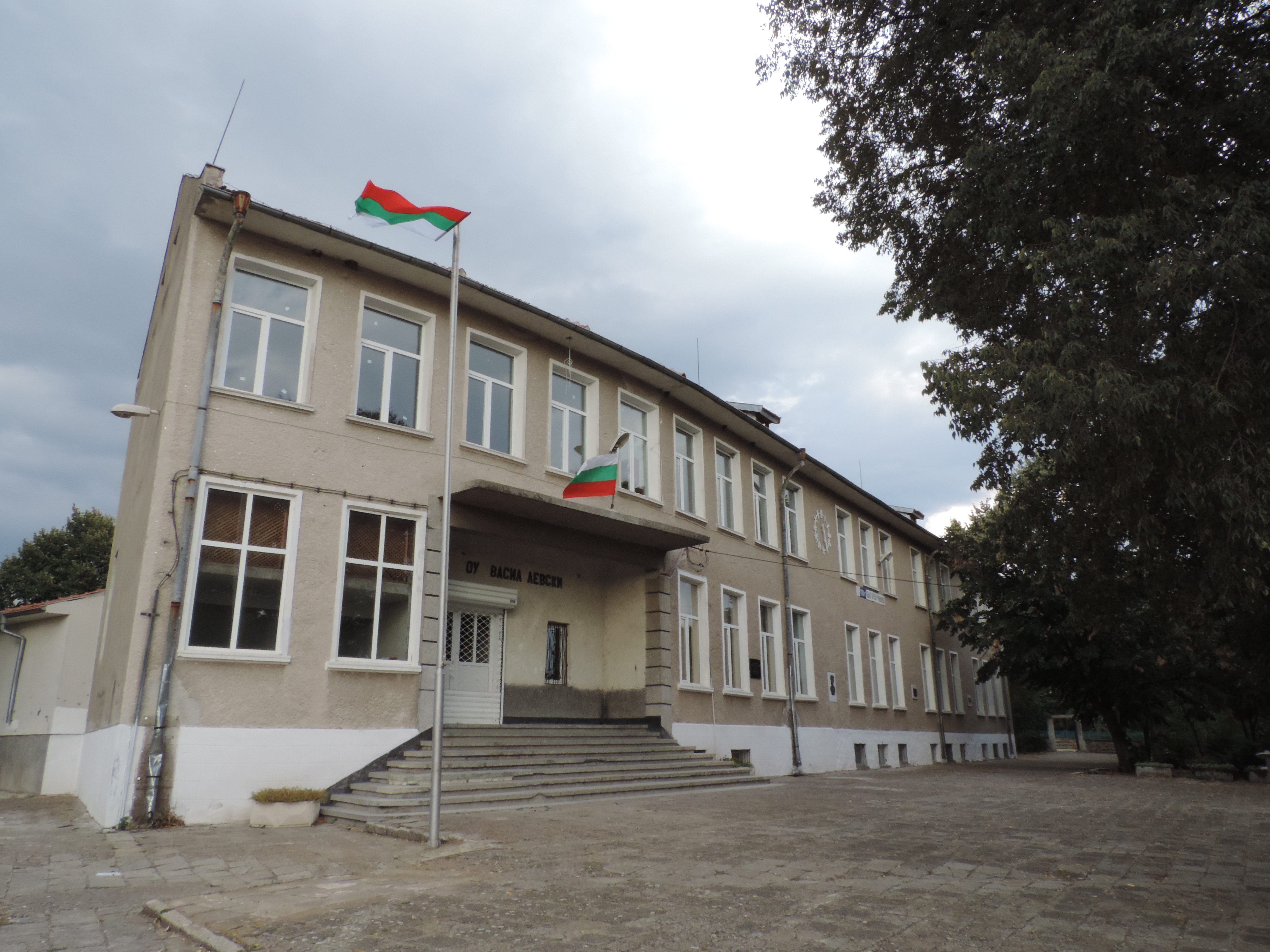 "Vasil Levski" Elementary School in village Balgarovo, Burgas Province, Bulgaria